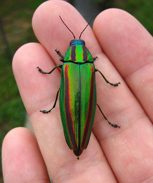 A picture of Chrysochroa fulgidissima, or "Tamamushi" beetle. Photo taken in Iizaka, Japan with a Canon PowerShot SD450 Digital Elph camera. Image file extension was changed using a Paint Shop program on a laptop computer.